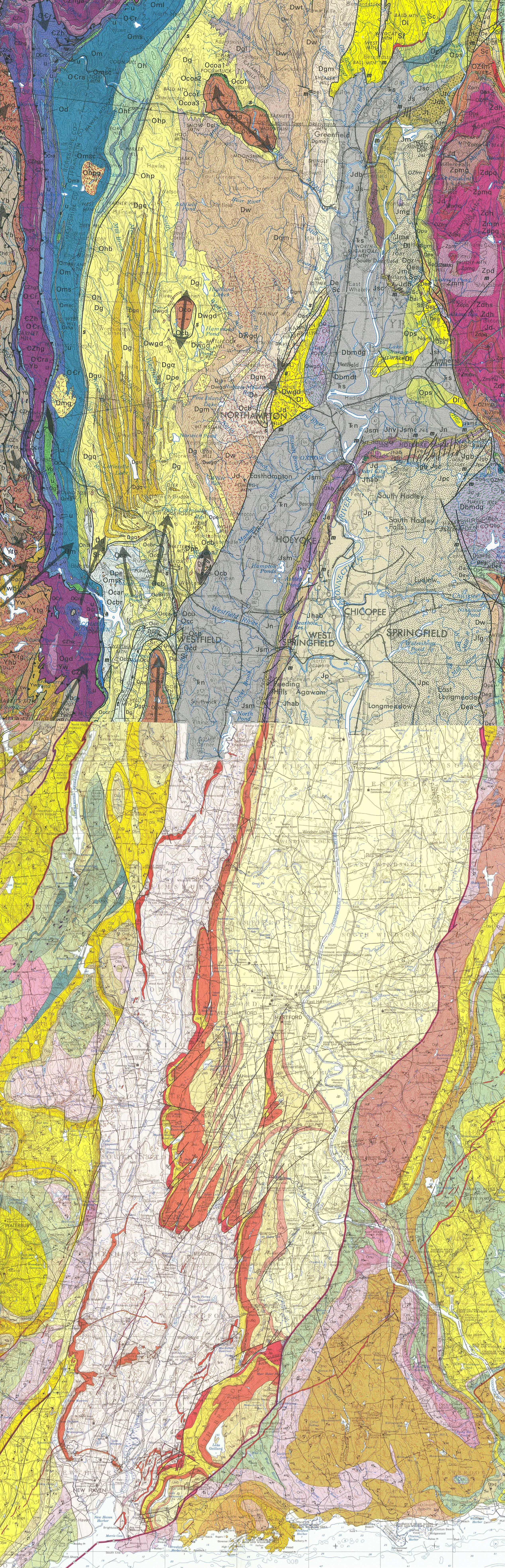 Bedrock geological map of the Hartford-Deerfield Basin (Newark Supergroup) including the basalts which form the Metacomet Ridge (unit symbols: Jta, Talcott Formation; Jho/Jhb, Holyoke Formation; Jha/Jhab, Hampden Formation) and adjacent areas, Massachusetts and Connecticut, United States of America.